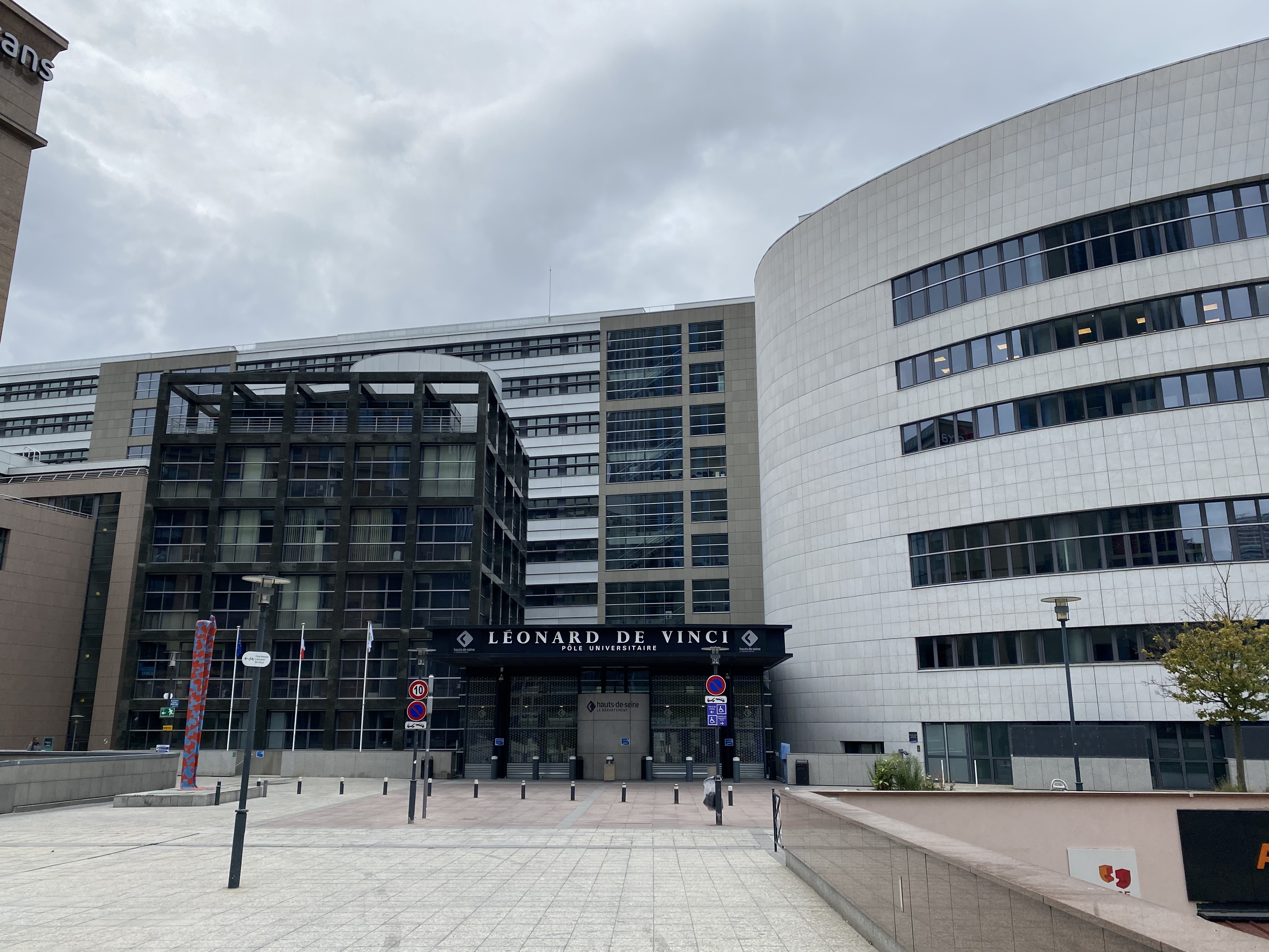 Leonardo de Vinci University Center main entrance at Paris La Défense